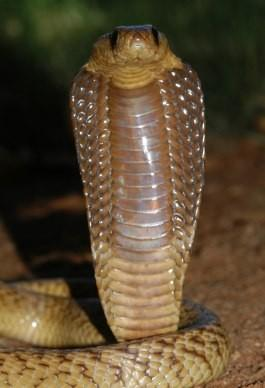 A Cape cobra (Naja nivea) with its hood spread.